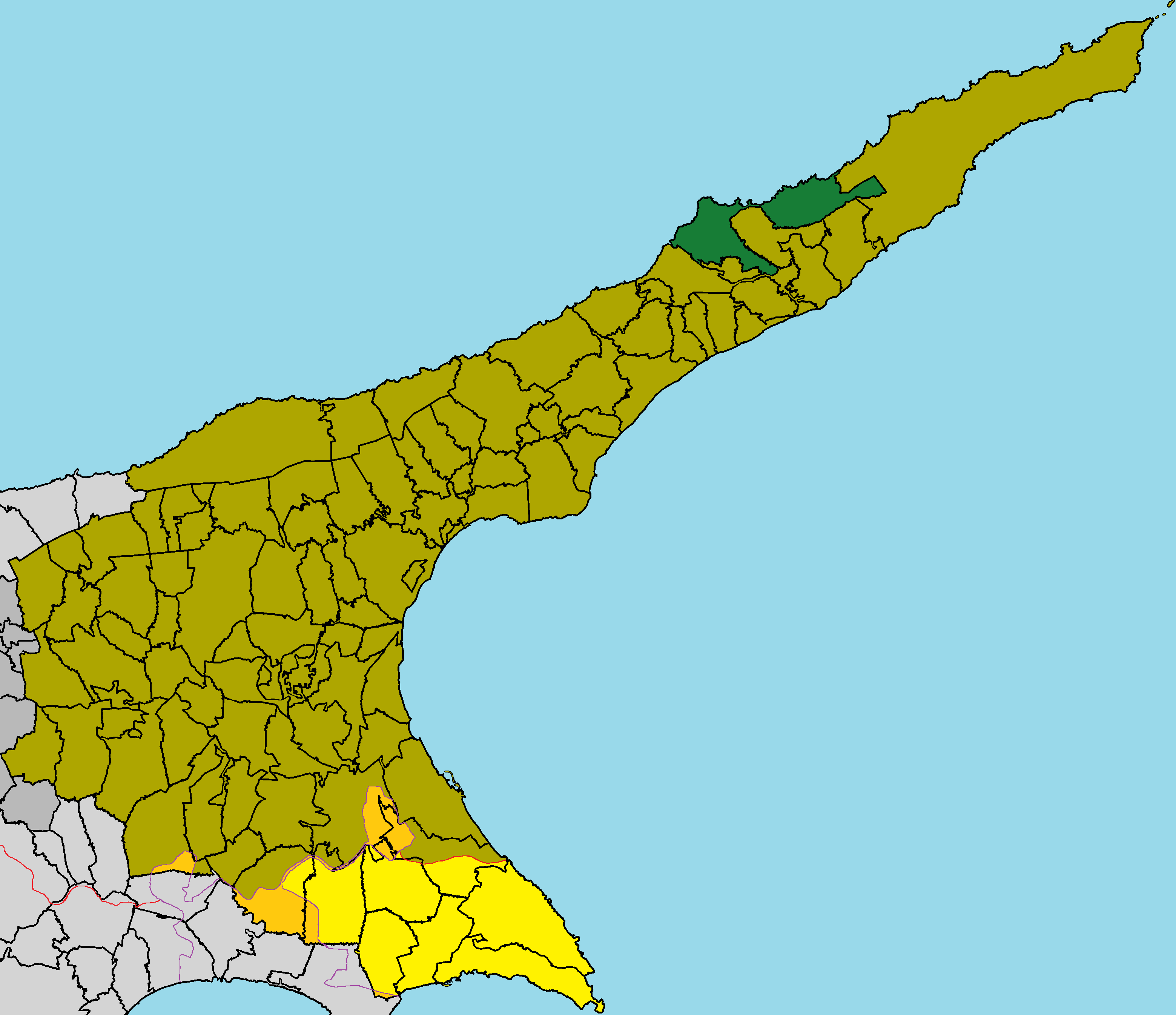 Aigialousa in Famagusta District (de jure).